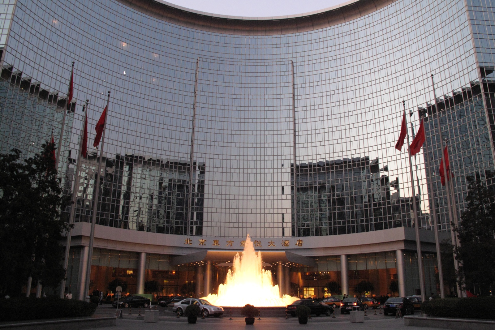 The Grand Hyatt Beijing (S: 北京东方君悦大酒店, T: 北京東方君悅大酒店, P: Běi​jīng Dōng​fāng Jūn​yuè Dàjiǔ​diàn) - 1 East Chang An Avenue (Dong Chang'an Jie), Beijing, People's Republic of China 100738